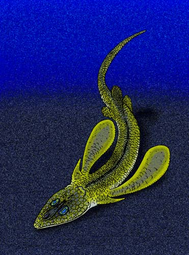 Reconstruction of the suspected placoderm, Pseudopetalichthys problematica, of Early Devonian Germany.